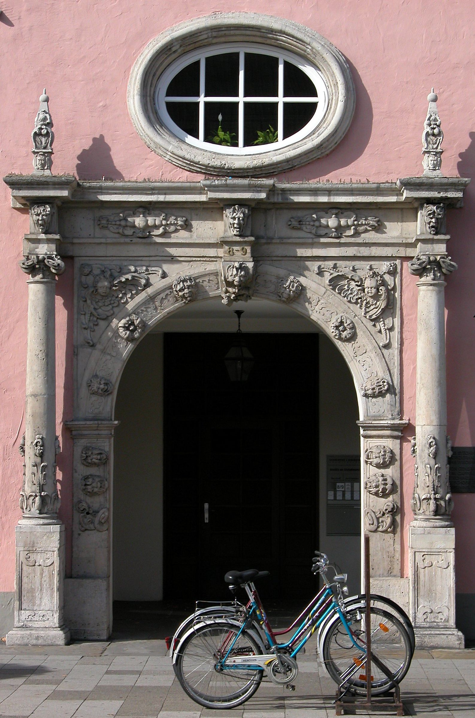 Braunschweig, Germany: Stechinelli-Haus, Portal.